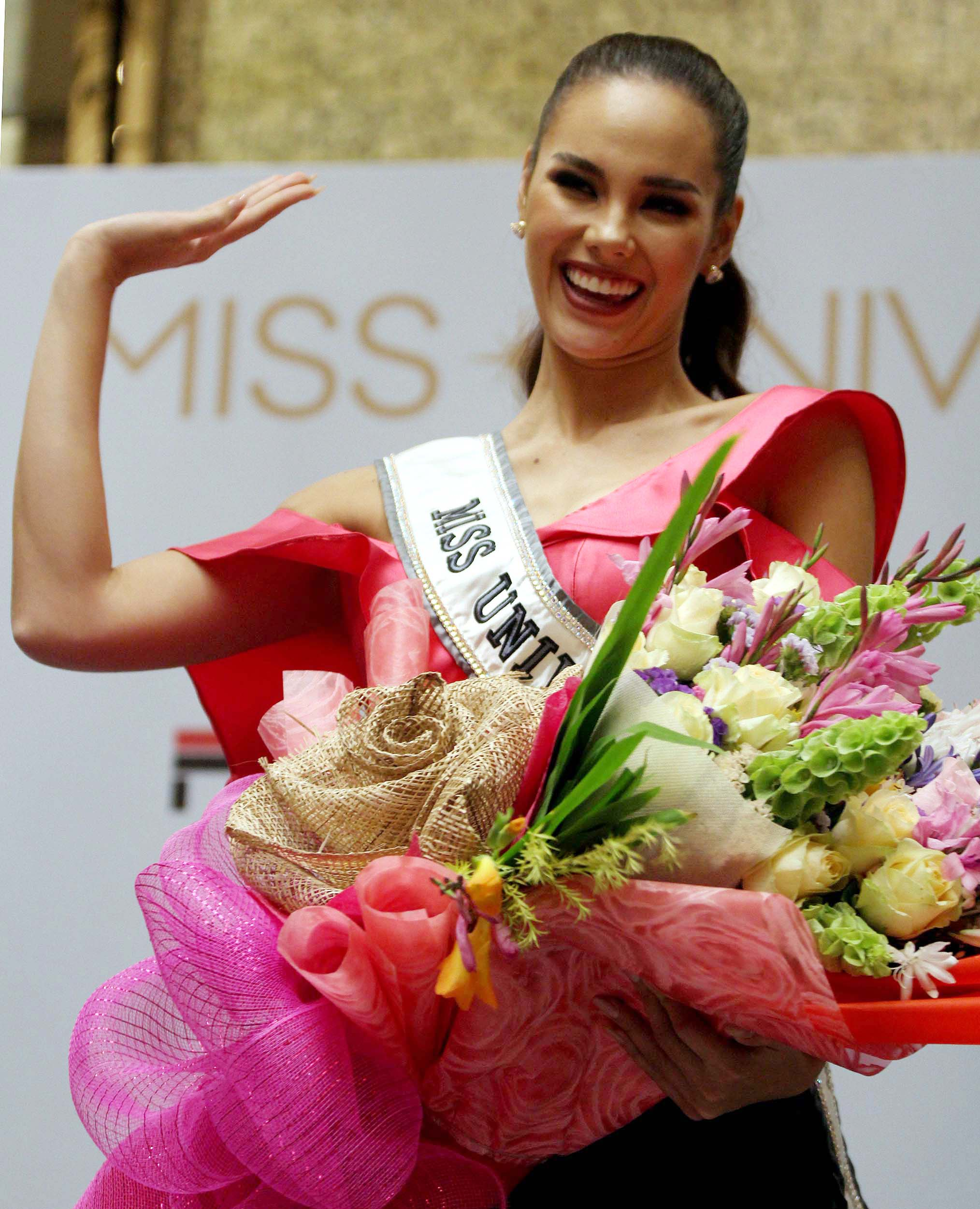 Miss Universe 2018 Catriona Gray poses during the Frontrow Cares Christmas Charity for Kids Press conference held at the Shangri-la BGC in Taguig City on Thursday (December 20, 2018).